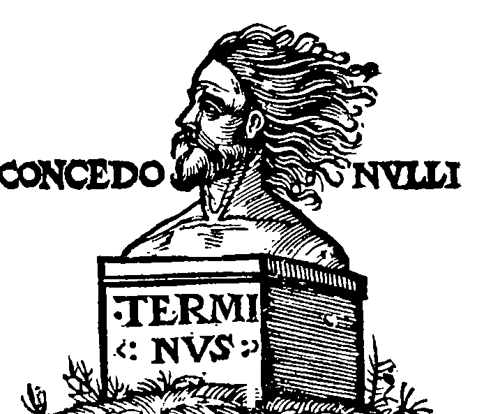 alleged portrait of Mikołaj Hussowczyk from the last page of the first edition of "Carmen Nicolai Hussoviani de statura, feritate ac venatione Bisontis"